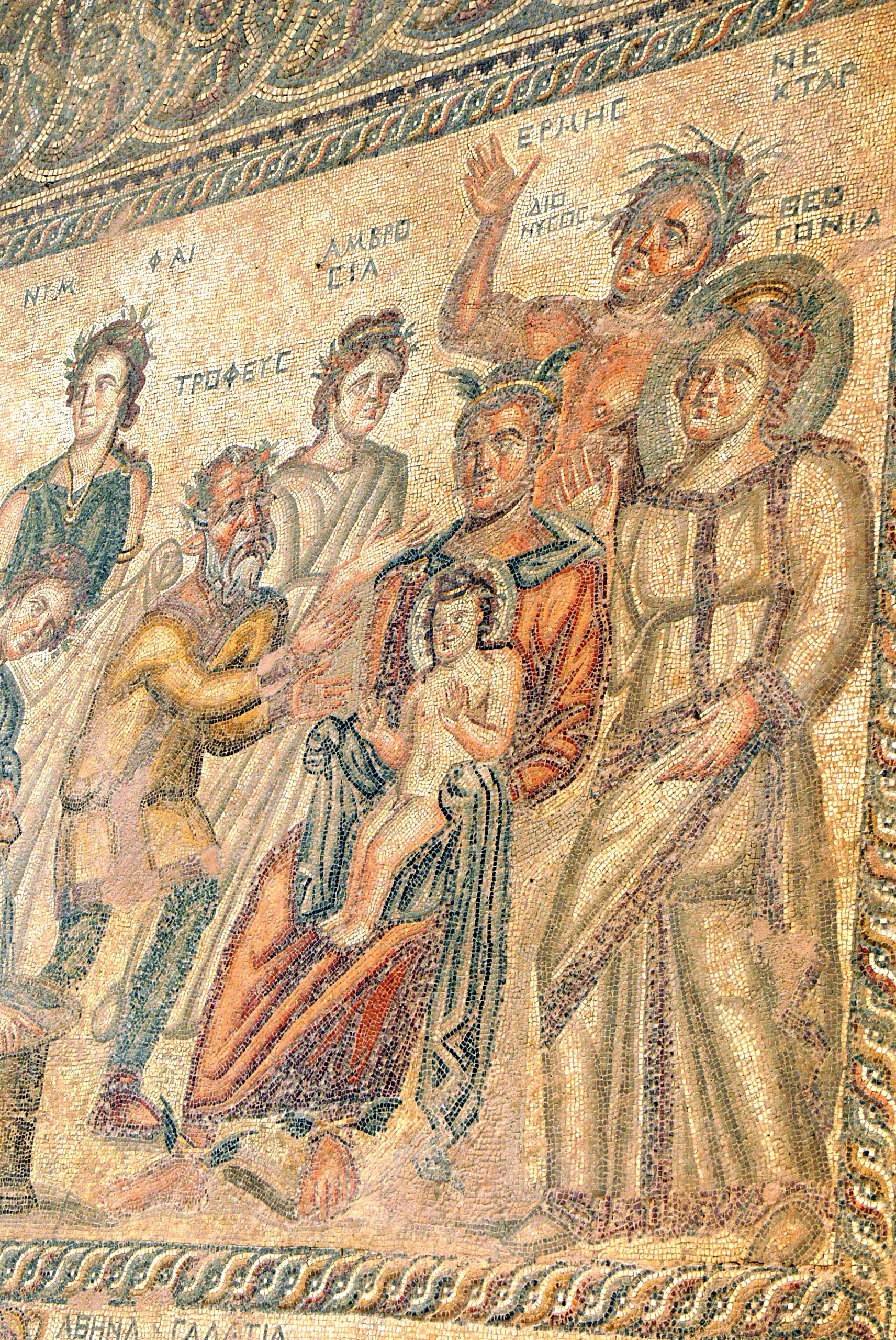 Paphos Archaeological Park. House of Aion: Birth of Dionysos - Young Dionysos sitting on the lap of Hermes, in company of Nectar and Anbrosia ( allegories of immortality ) and Theogonia ( Allegory of the birth of god ) ( detail ).